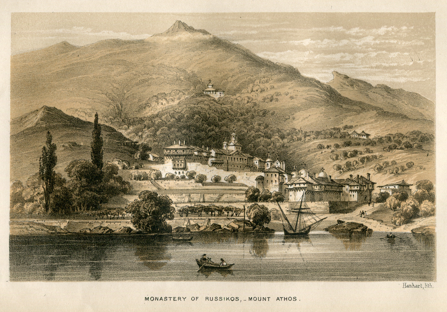 Monastery of Russikos, Mount Athos - Walker Mary Adelaide - 1864